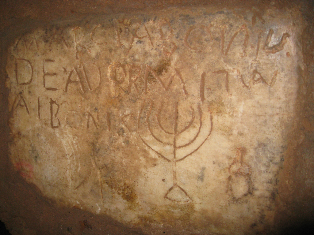 Via Appia, Italy, Jewish catacombs